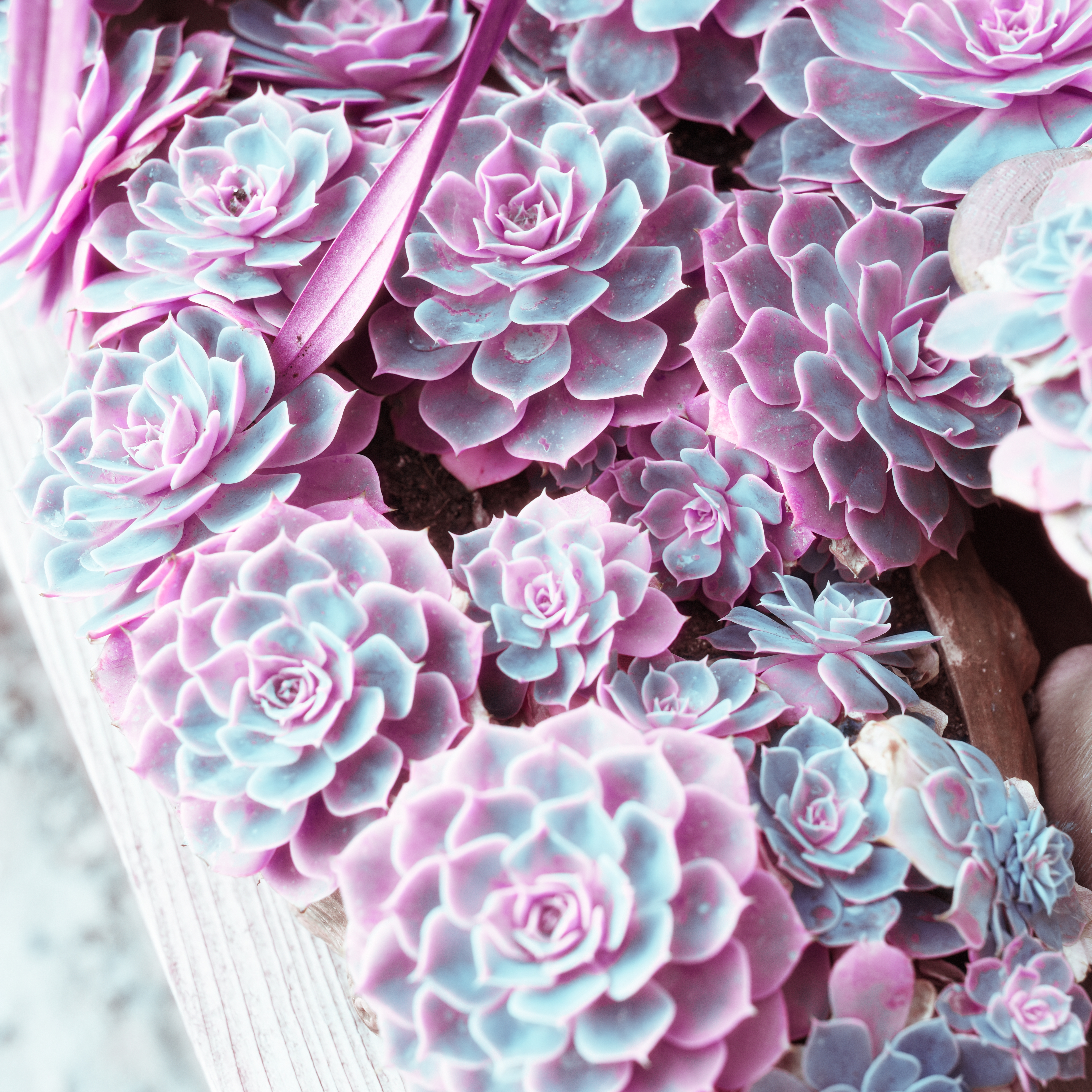 Digital infrared using the program Exposure. Infrared photograph is marked by turing greens into pinks and purples.